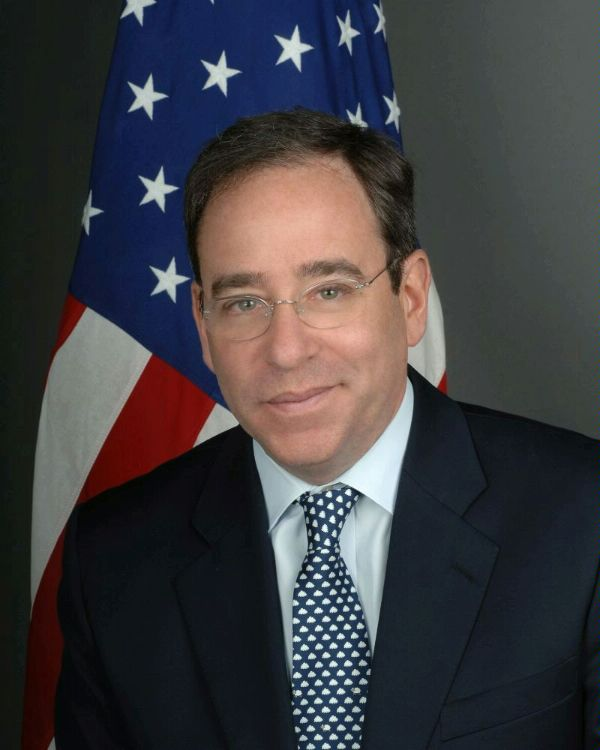 Thomas R. Nides, Deputy Secretary of State for Management and Resources.